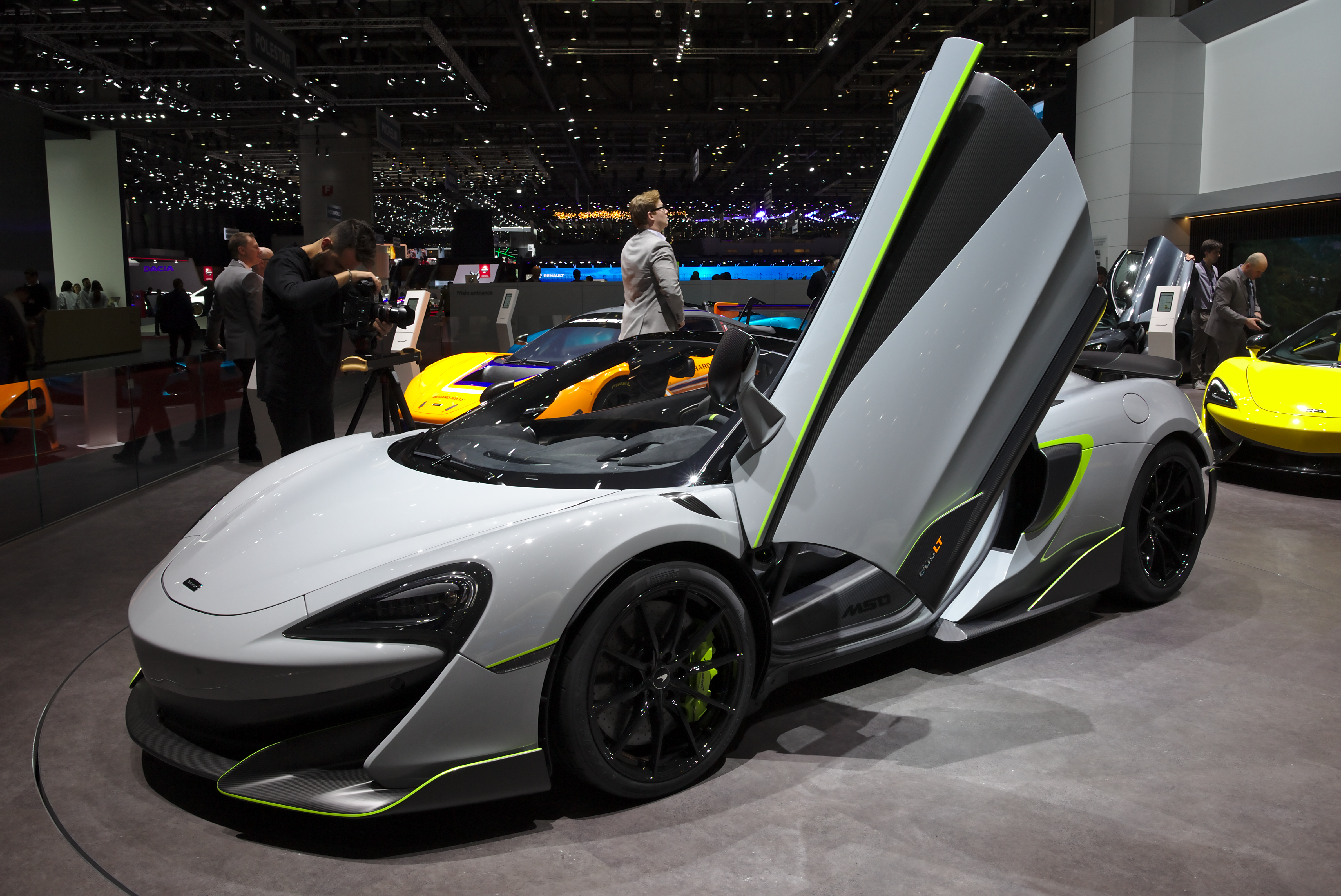 McLaren 600LT Spider MSO at Geneva Motor Show 2019